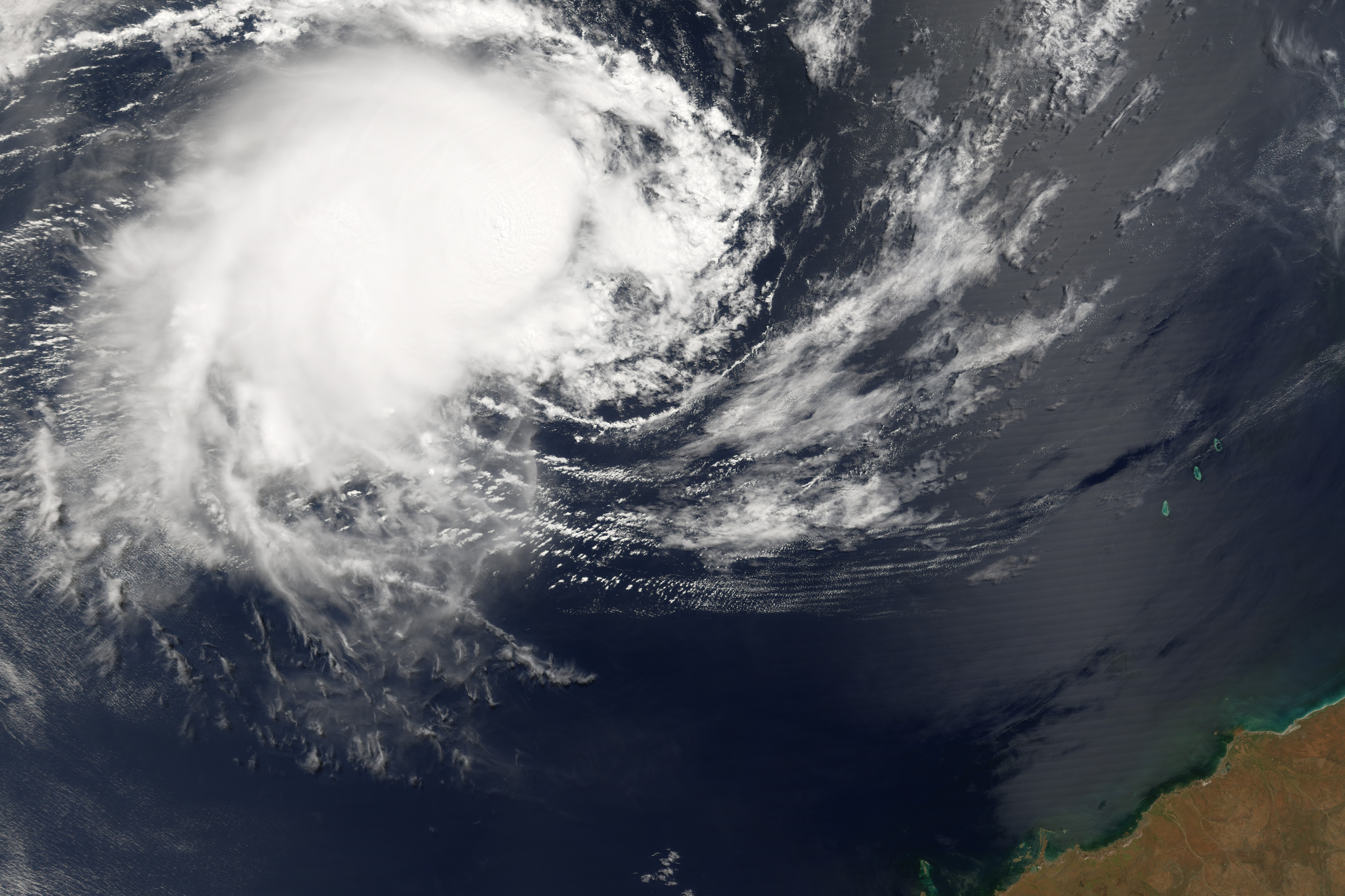 Tropical Cyclone Floyd formed northwest of Australia in the Timor Sea on March 21, 2006. The cyclone gained power gradually and was heading west into the Indian Ocean. It was not predicted to travel over any large landmasses, though it may pose a threat to Christmas Island well off the Western Australia coast in the Indian Ocean. When the Moderate Resolution Imaging Spectroradiometer (MODIS) on the Terra satellite observed the storm at 11:55 a.m. Australian Western Daylight Saving time (02:35 UTC) on March 22, 2006, Tropical Cyclone Floyd was continuing to slowly build power and size. When MODIS made this observation, the storm had peak winds of around 120 kilometers per hour (75 miles per hour), and forecasts at the time called for it to continue to gather strength for at least several days, with predicted peak winds of 170 kilometers per hour (105 mph), according to the University of Hawaii’s Tropical Storm Information Center.